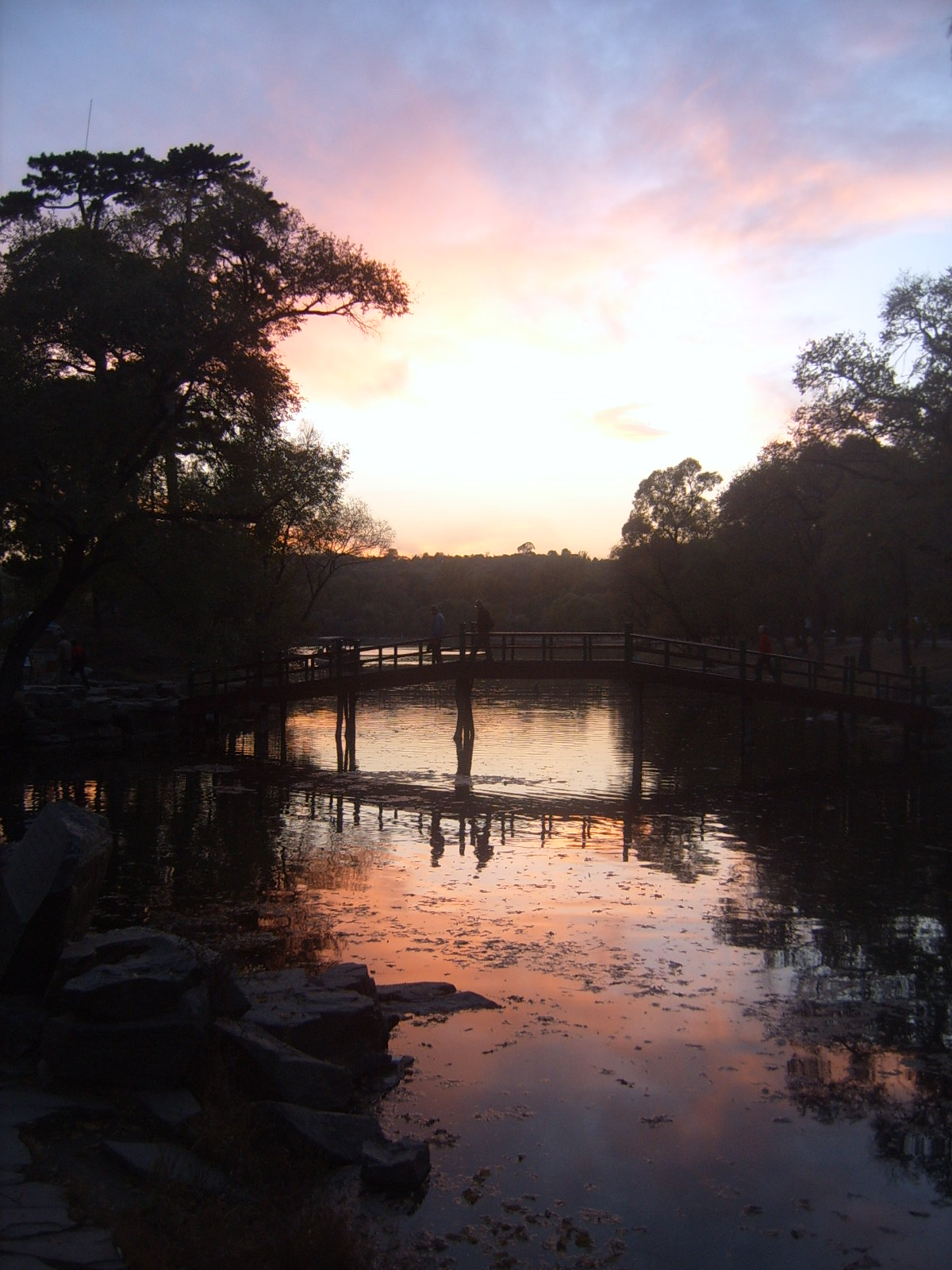 Mountain Resort, Chengde